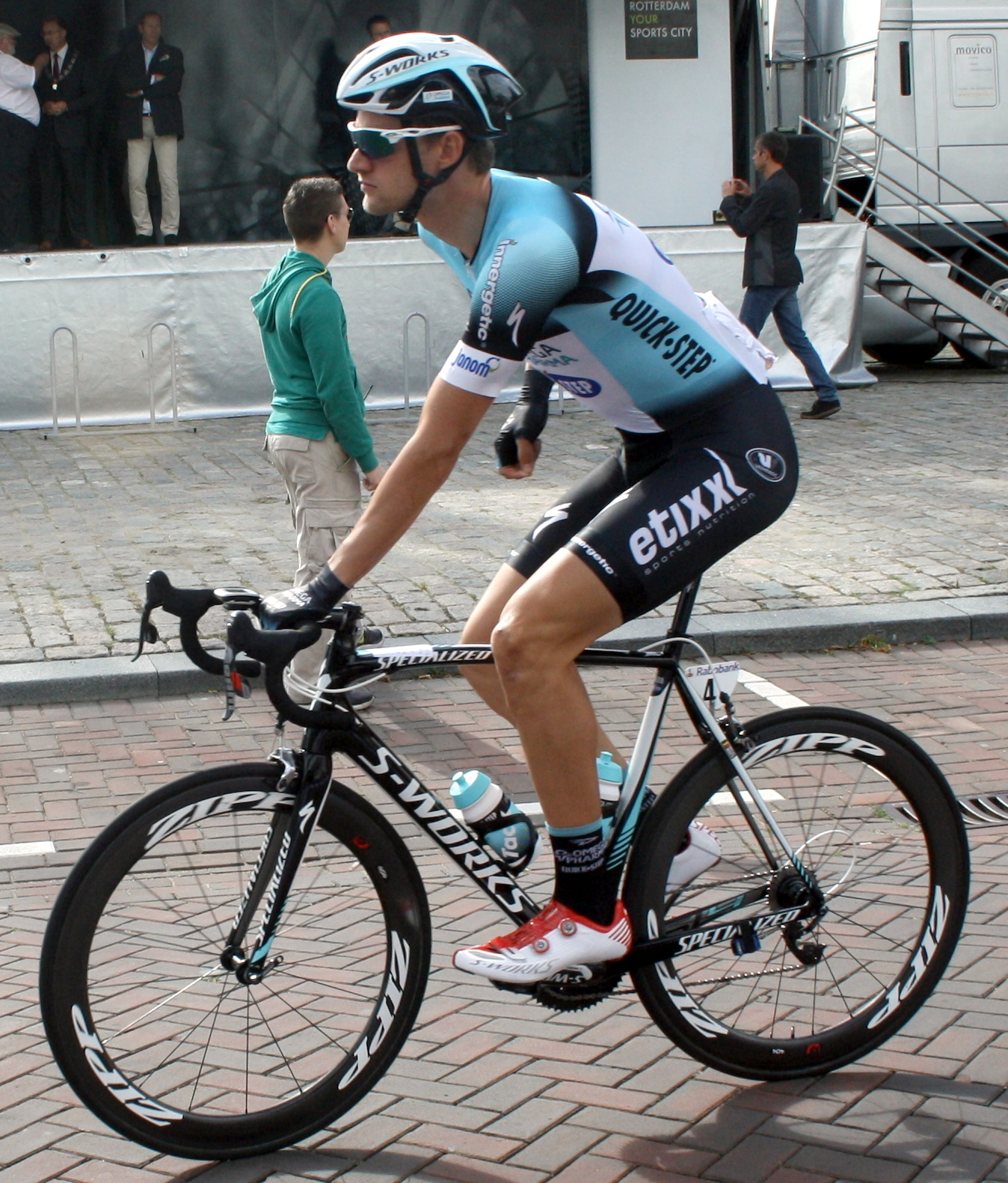 Nikolas Maes before the start of stage 2 of the World Ports Classic 2013